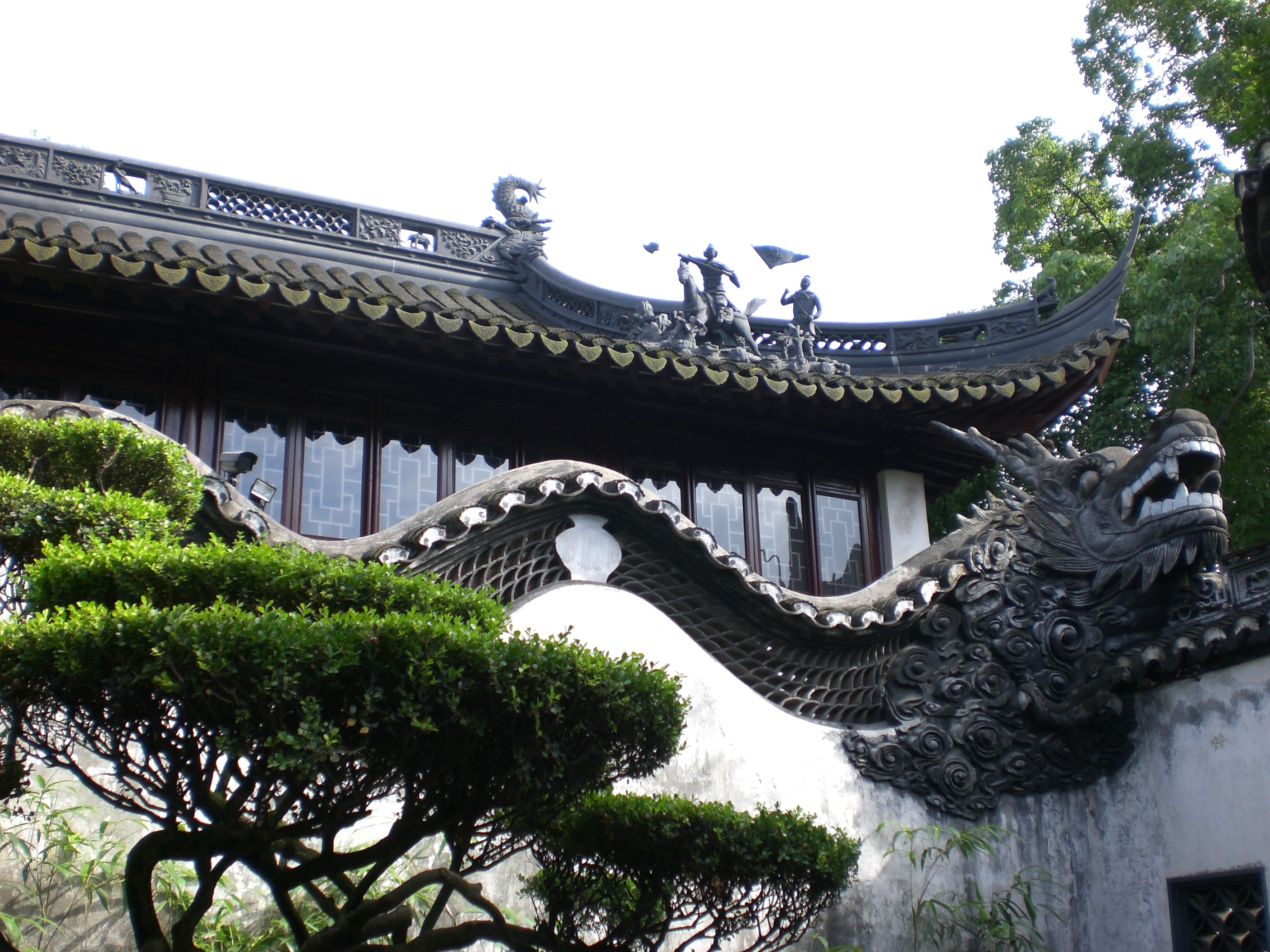 Shanghai, Yuyuan Garden, XVI Century